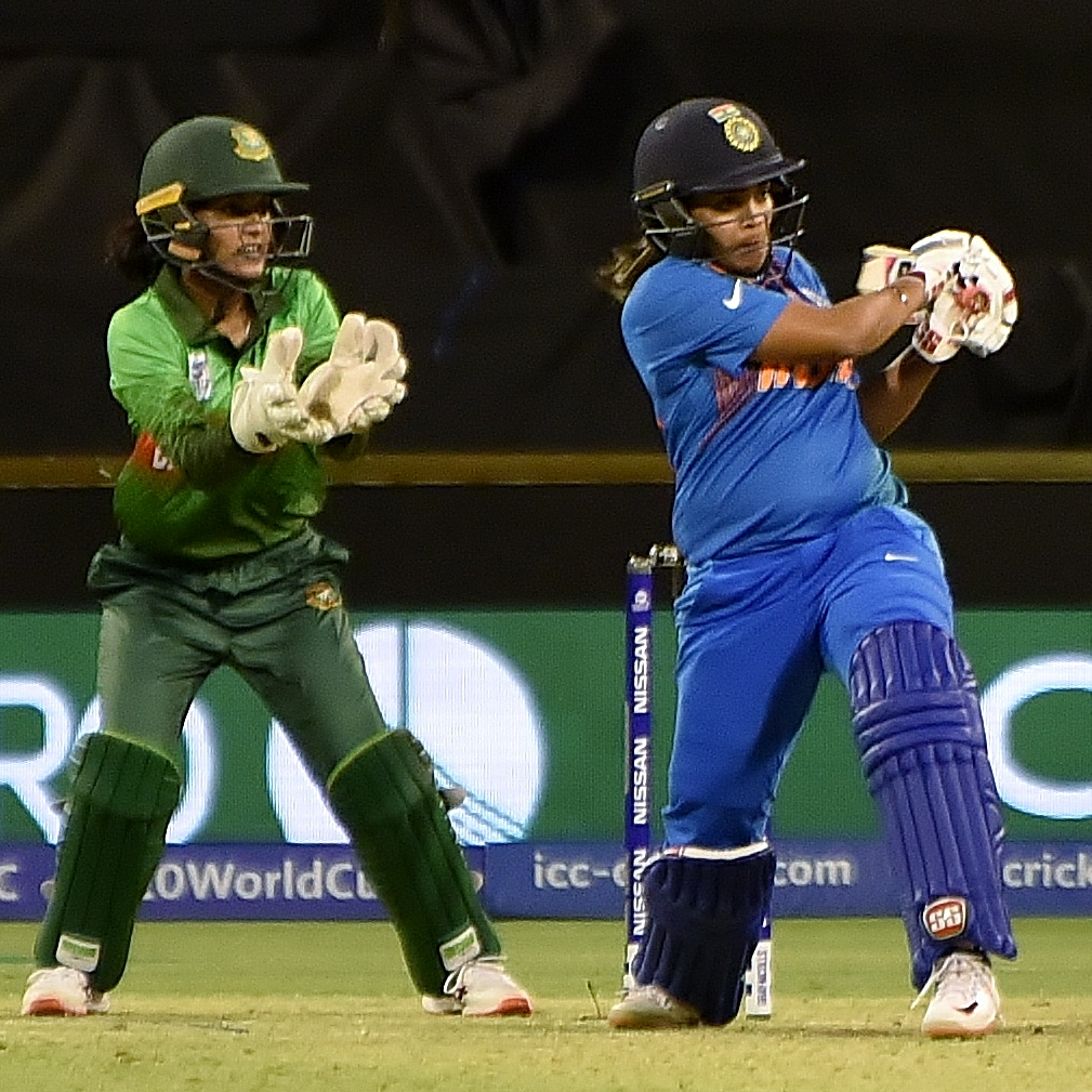 Veda Krishnamurthy batting for India against Bangladesh during their 2020 ICC Women's T20 World Cup match at the WACA Ground in Perth, Australia. The wicket-keeper is Nigar Sultana (cricketer).